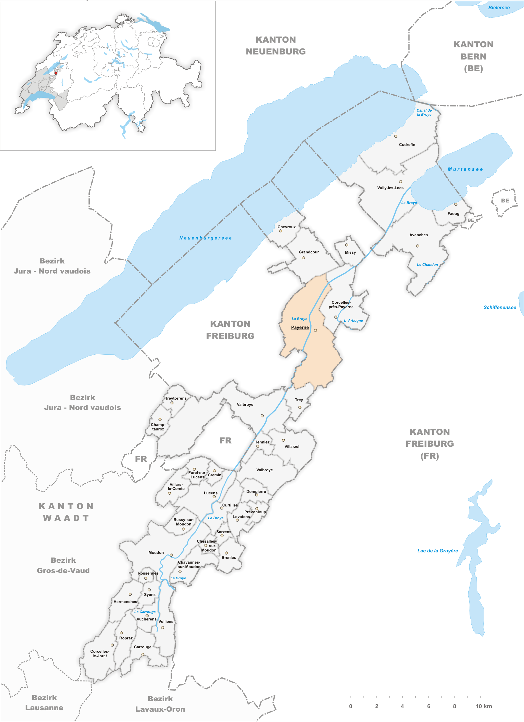 Municipality Payerne